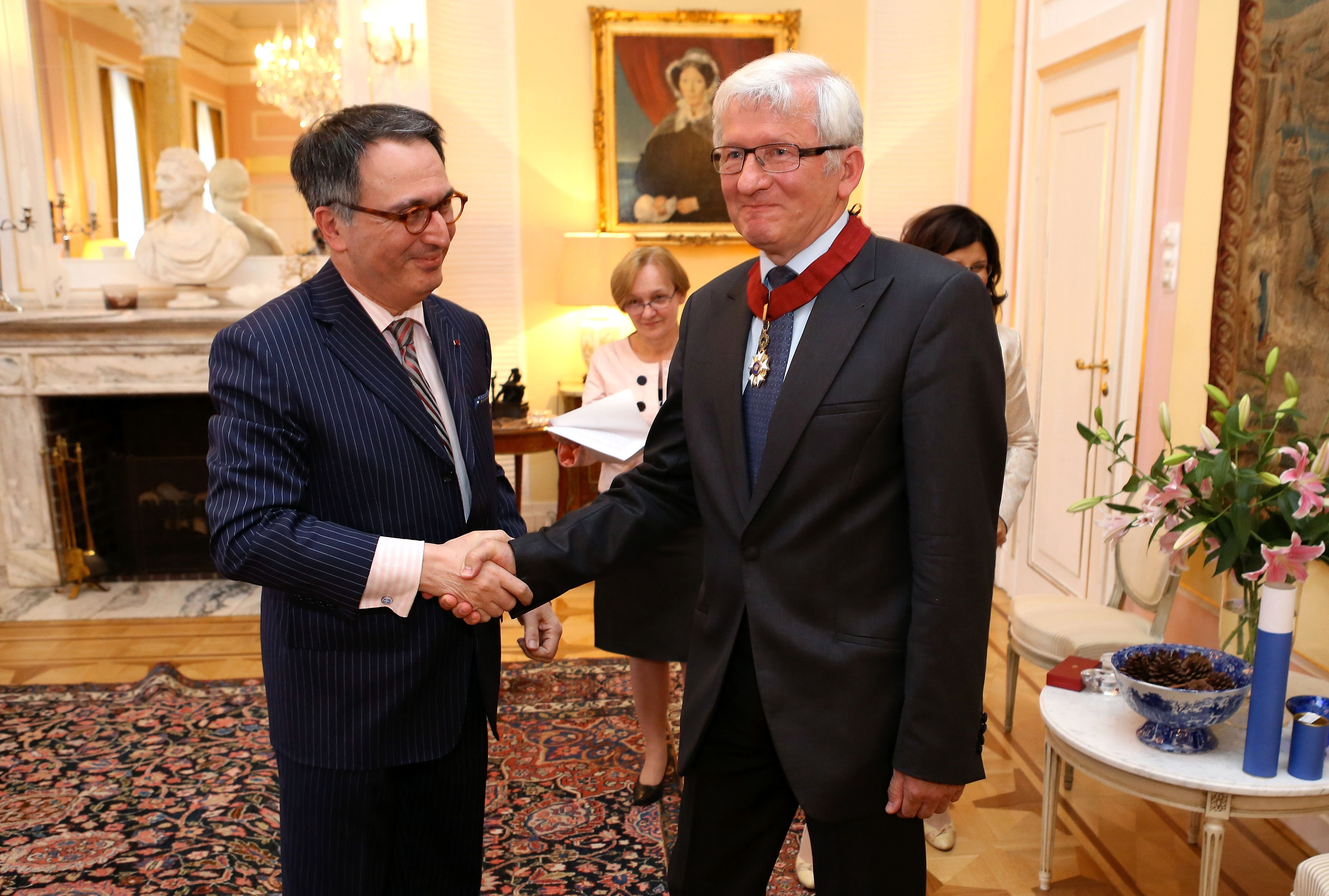 Ambassador of Belgium to Poland Raoul Delcorde awarding senator Marek Ziółkowski Order of the Crown